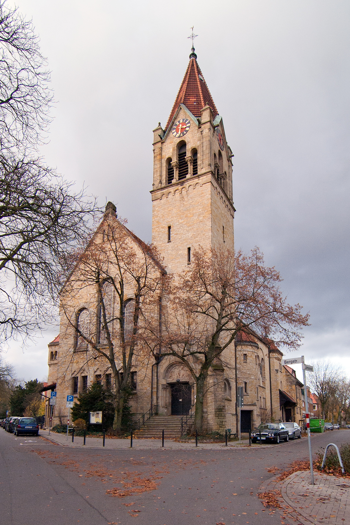 The reformed church in Osnabrück, Germany. The so-called Bergkirche was built by Otto March in 1892/93.Unknown die evangelisch-reformierte bergkirche in osnabrück. von otto march 1892/93 erbaut.